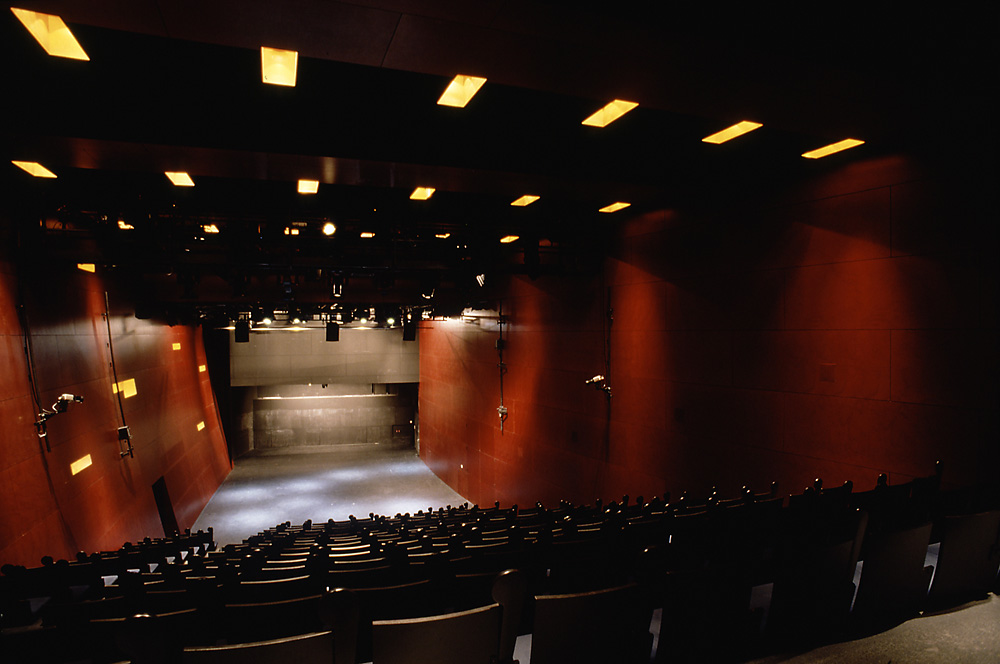 Kiasma Theatre, Museum of Contemporary Art Kiasma, Helsinki. Architect: Steven Holl.